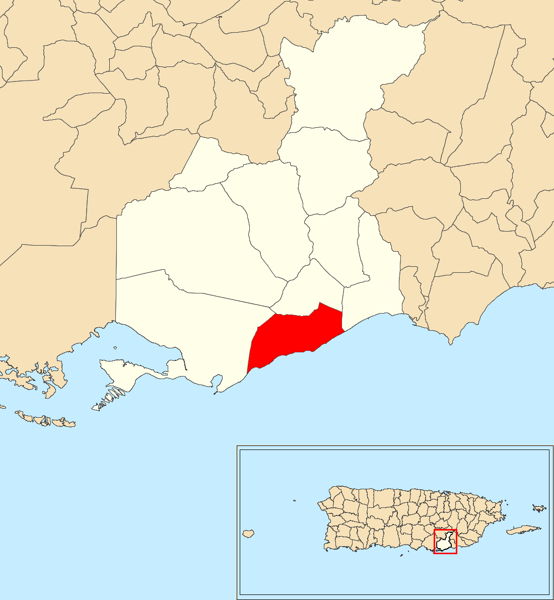 Machete, Guayama, Puerto Rico locator map